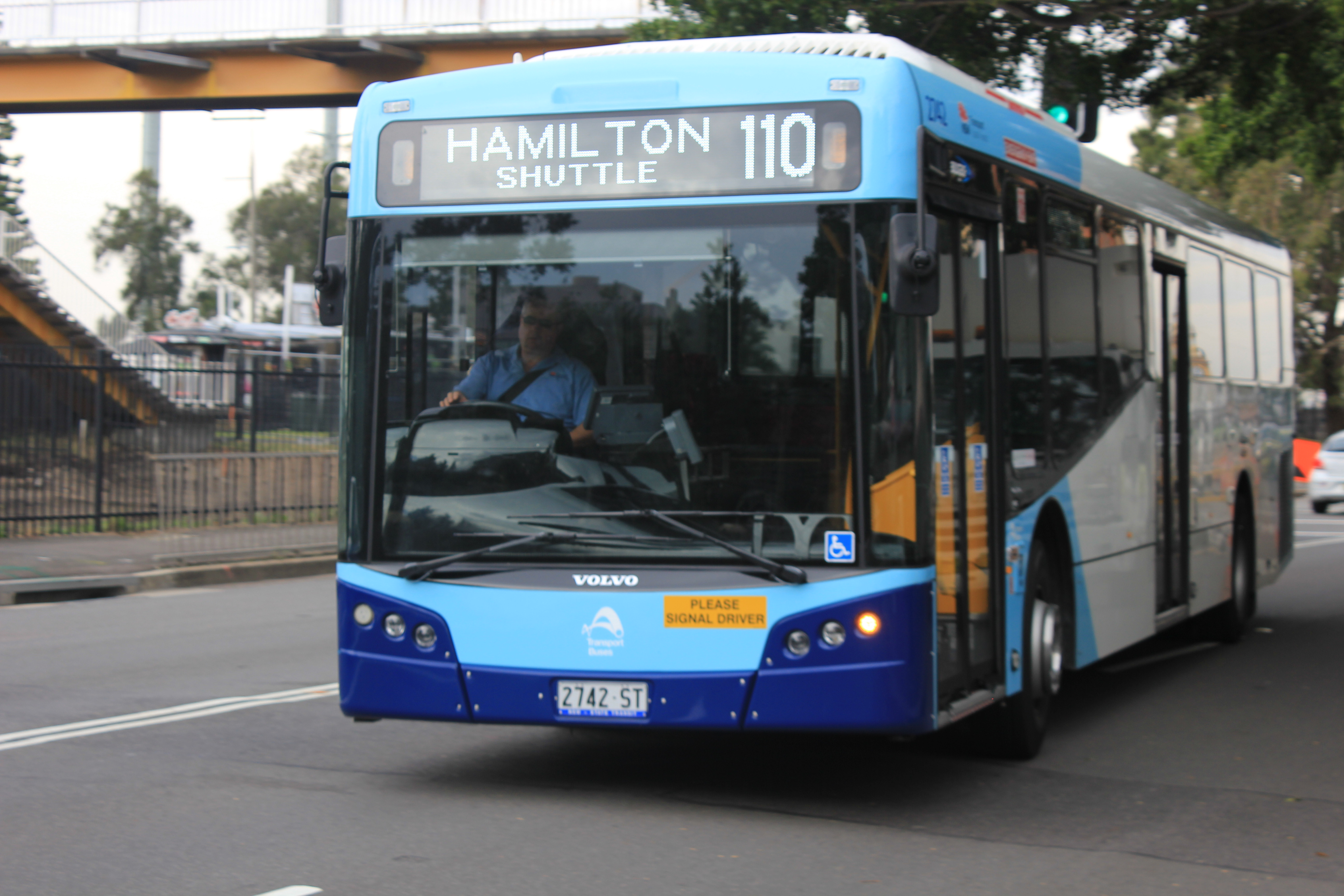 A Newcastle State Transit bus operating the Hamilton shuttle 110 route on September 1st 2016